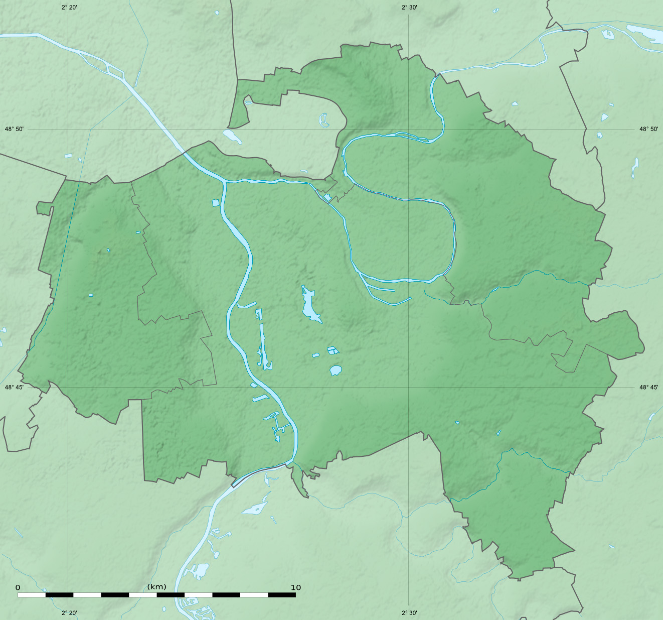 Blank physical map of the department of the Val-de-Marne, France, as in February 2015, for geo-location purpose, with distinct boundaries for departments and arrondissements.